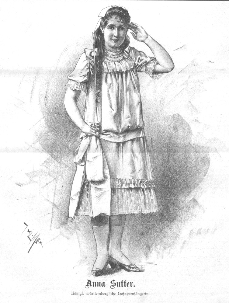 Portrait of Anna Sutter (1871-1910), Swiss-German opera singer